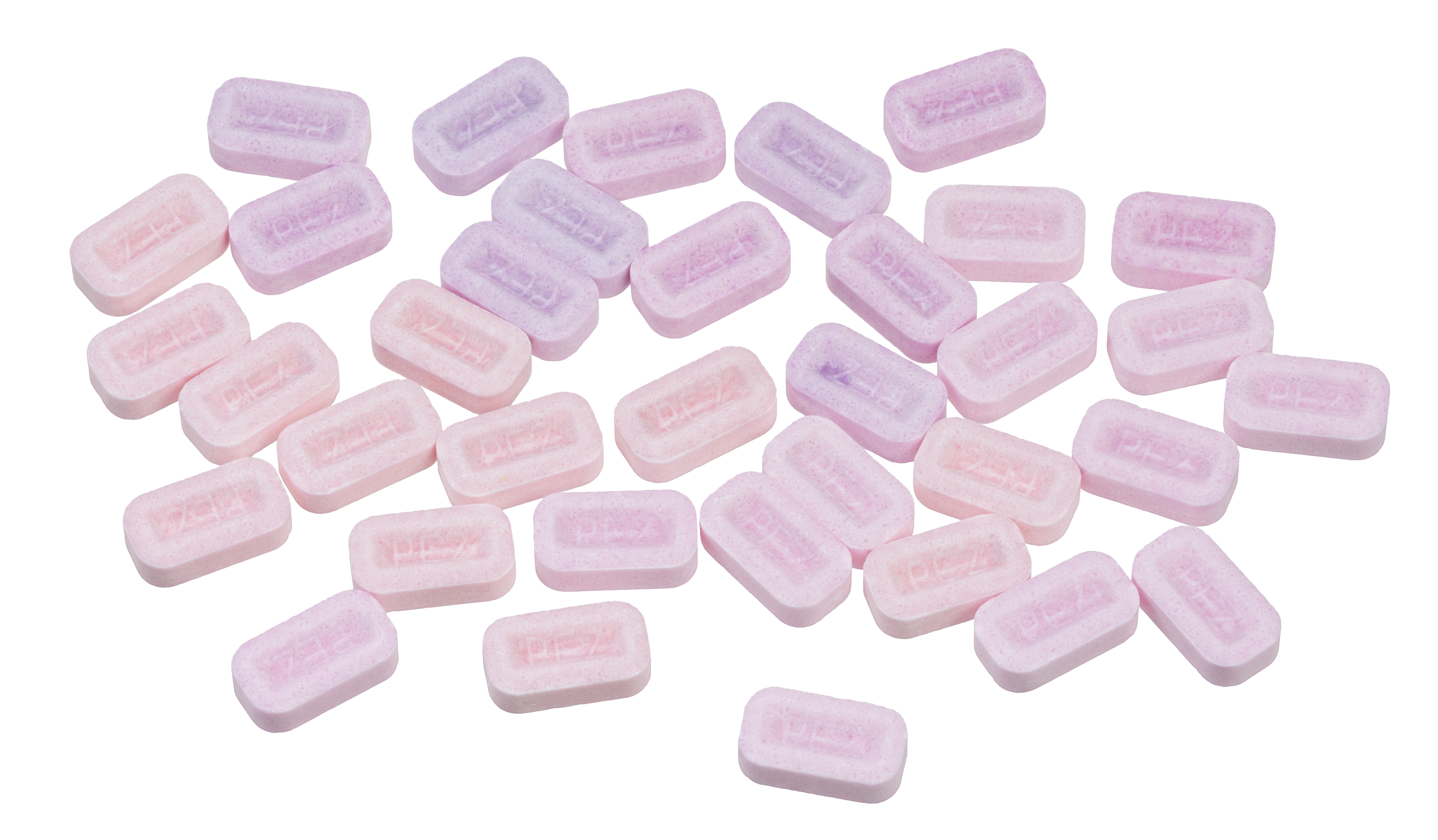 A pile of various flavors of PEZ candies. PEZ are most notable for the wide variety of candy dispensers that the tablet-like candies are dispensed from, which are often shaped like licensed pop-culture characters.